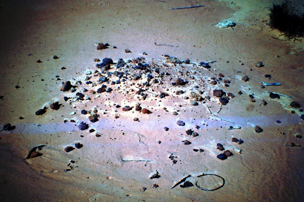 i took this photo on a trip to far west New south Wales in 1976.